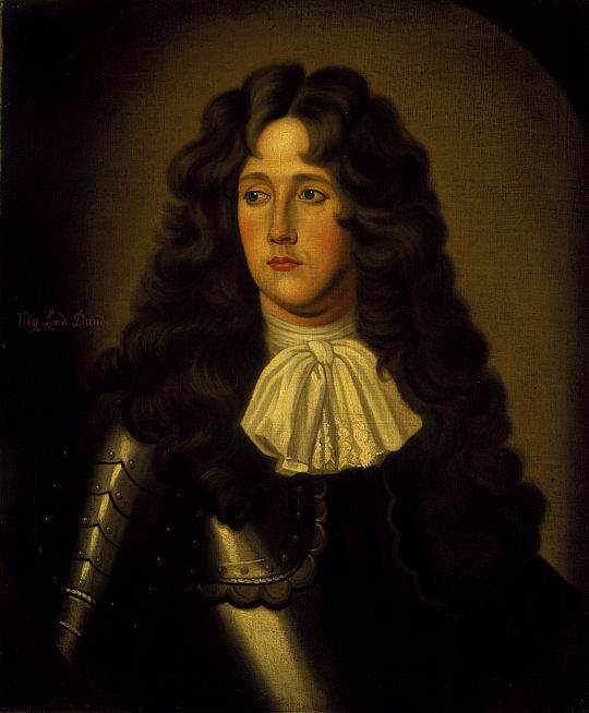 John Graham, 1st Viscount of Dundee (1648-1689)